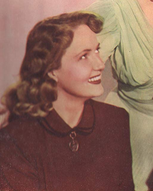 Tanis Chandler in the 1951 film According to Mrs. Hoyle.